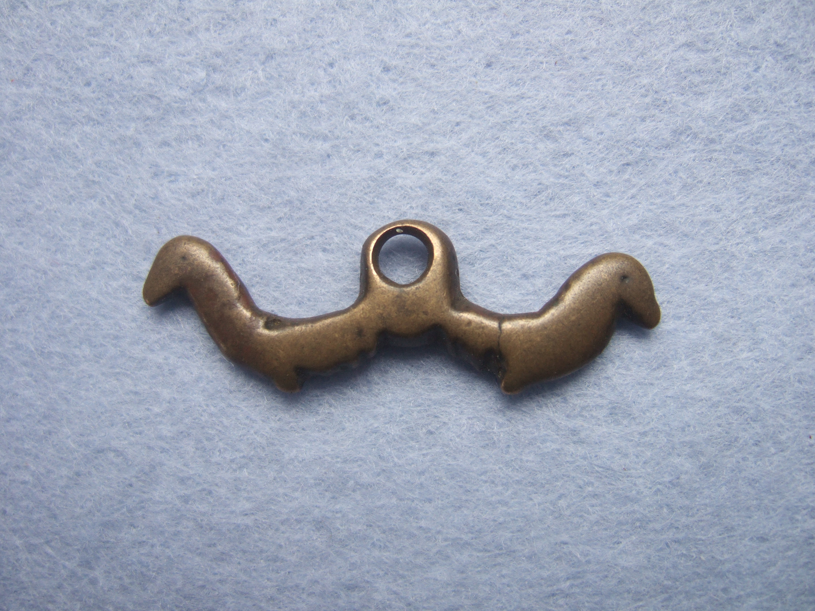 Tibetan thoglcags in the shape of an arch (bronze)